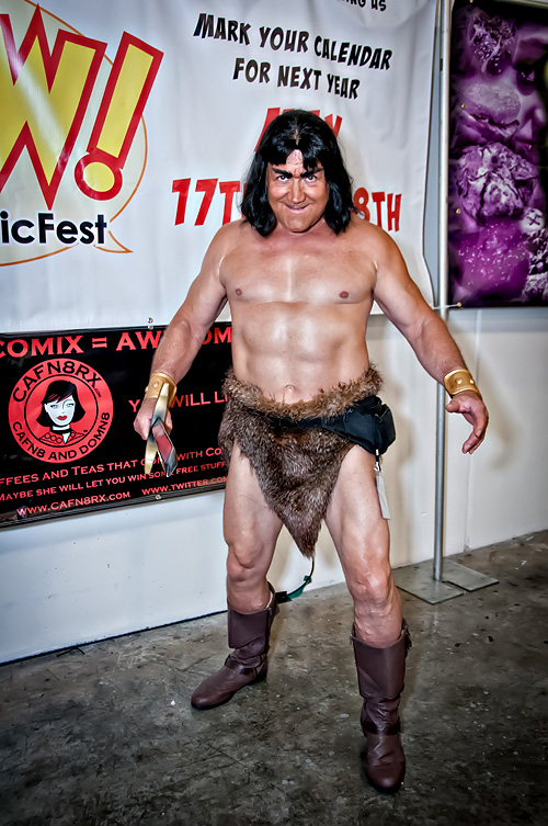 Cosplay at Big Wow! ComicFest in 2013.